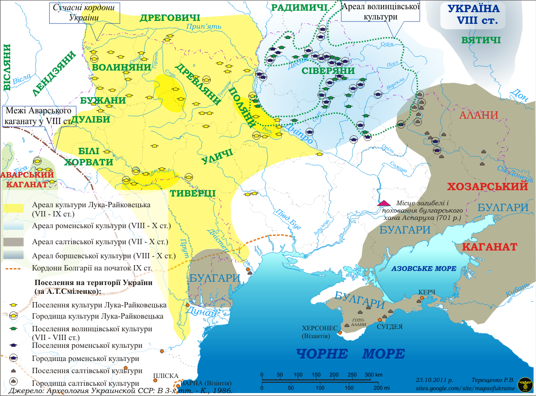 Earth's present-day Ukraine in the 8th century. Khazar Khanate.